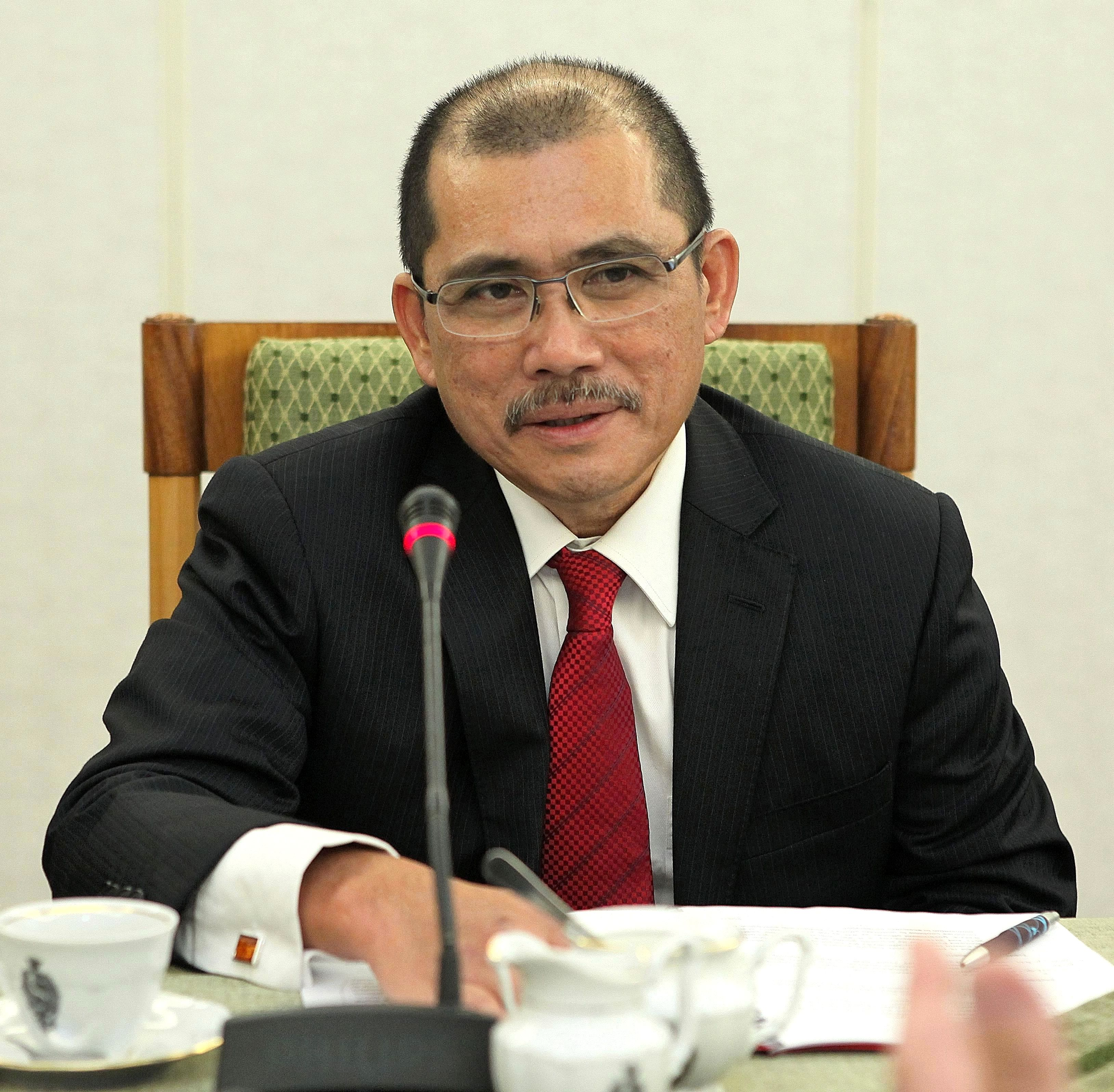 Deputy Speaker of the House of Representatives of Malaysia Datuk Ronald Kiandee